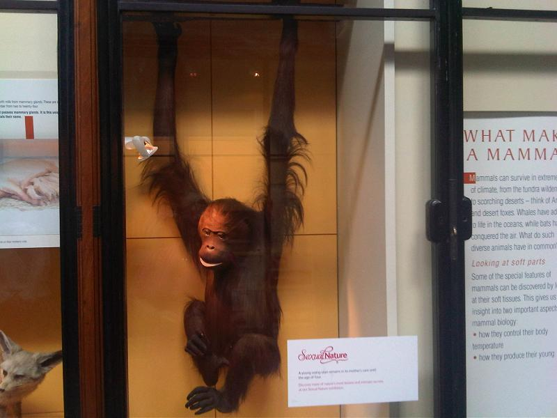 Taxidermied, young Sumatran orangutan (Pongo abelii) at the Natural History Museum in London, England.